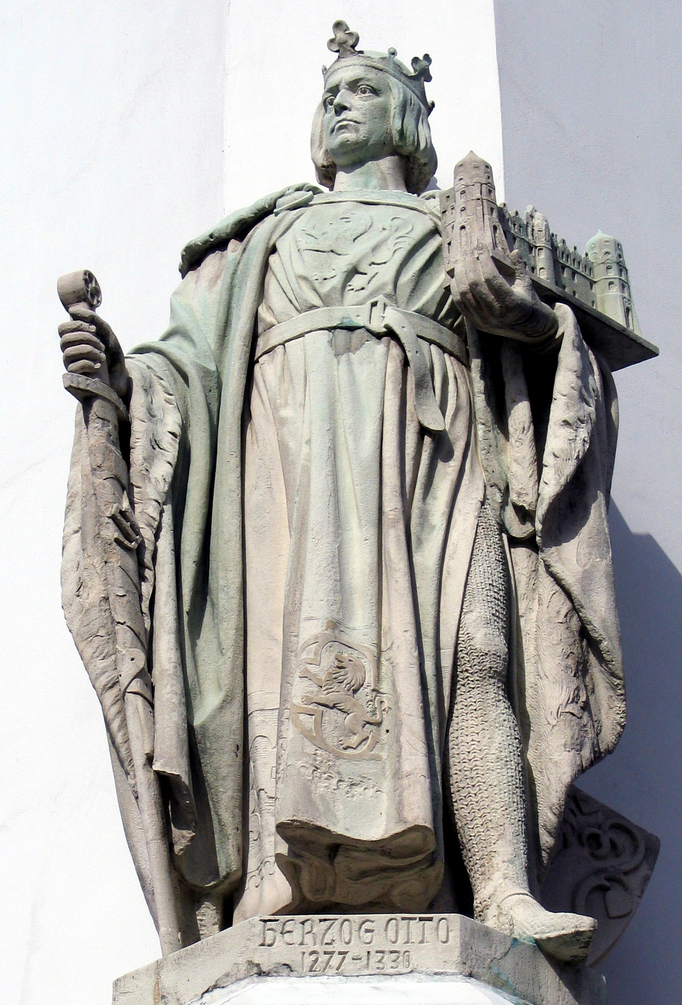 Sculpture of Otto II, Duke of Brunswick-Lüneburg at Bomann-Museum in Celle in front of the entrance of Celle Castle ...